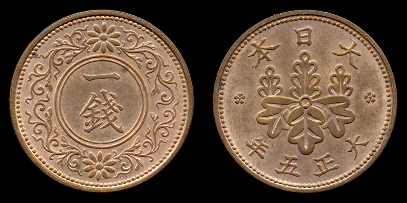 1sen-T5